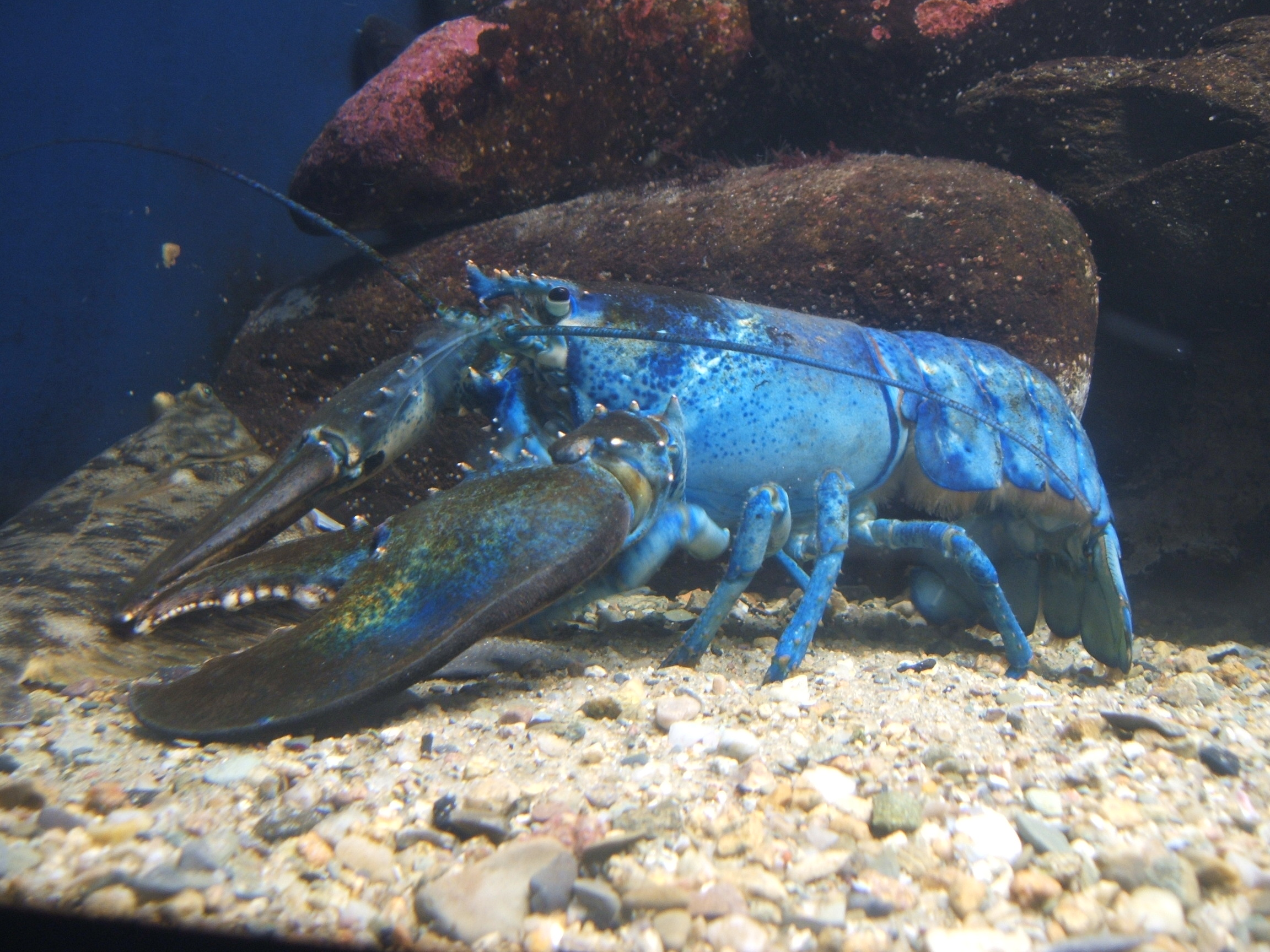 Blue American lobster (Homarus americanus). Taken at the New England Aquarium (Boston, MA, December 2006. Copyright © 2006 Steven G. Johnson and donated to Wikipedia under GFDL and CC-by-SA. The Blue Lobster receives its name from its characteristic blue color.